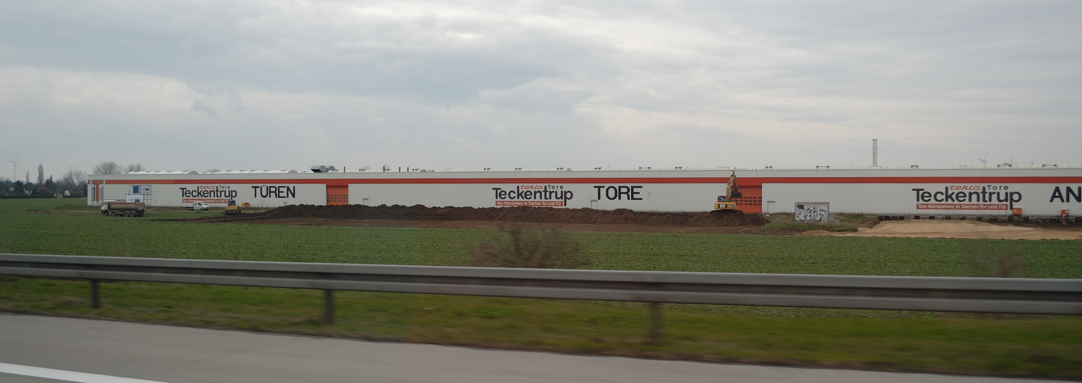 Teckentrup, Großzöberitz plant. Road shot from A 9 looking west.